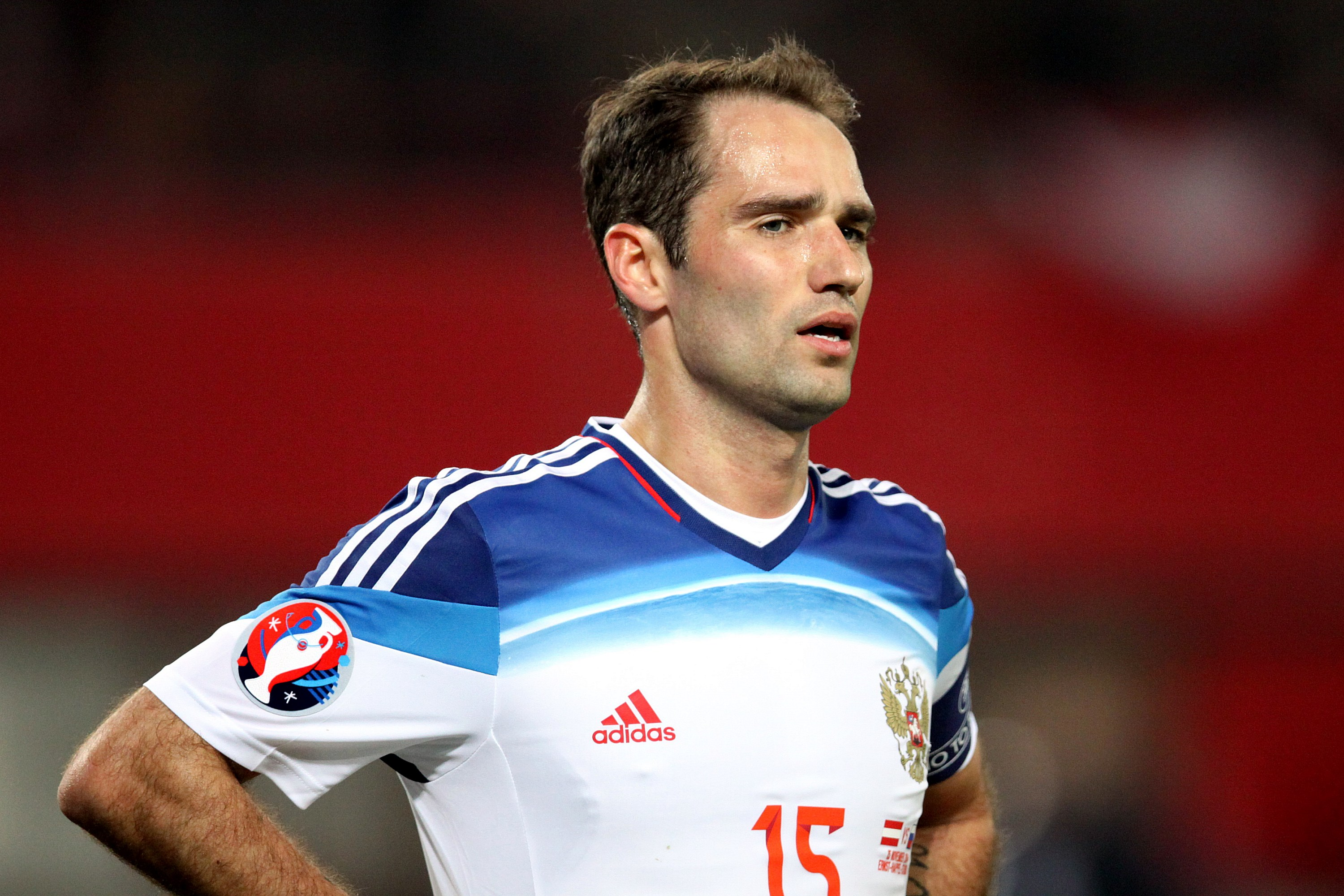 UEFA Euro 2016 qualifying: Austria vs. Russia (1:0 / 0:0) at 2014-11-15 in the Ernst-Happel-Stadion in Vienna. – The photo shows en: (Austria / Russia).